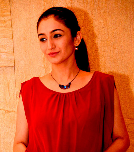 Neha Mehta at the launch party of Sony LIV.